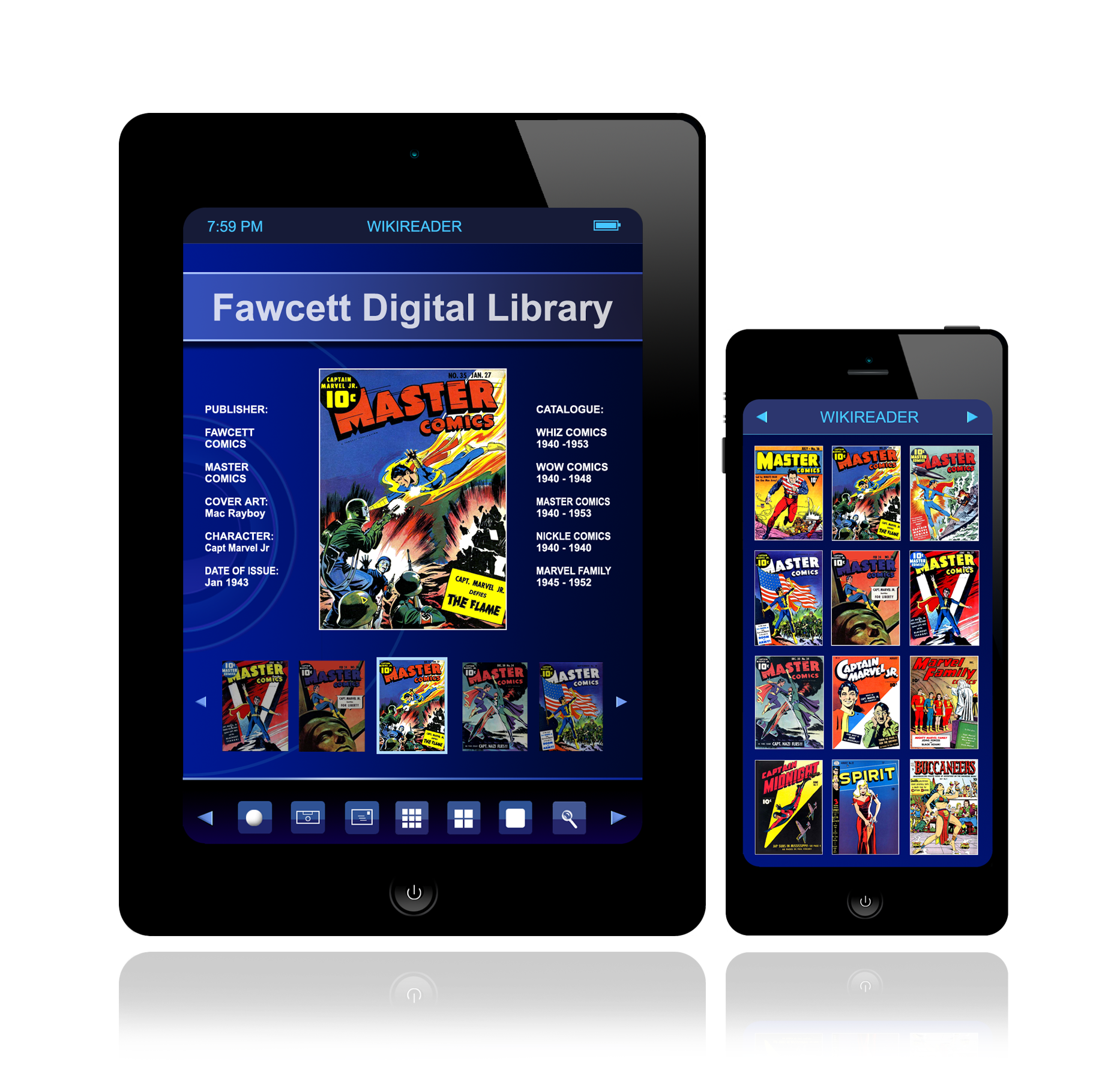 Faux iPad/readers, incorporating public domain comic book covers. Released into the public domain under cc-zero.